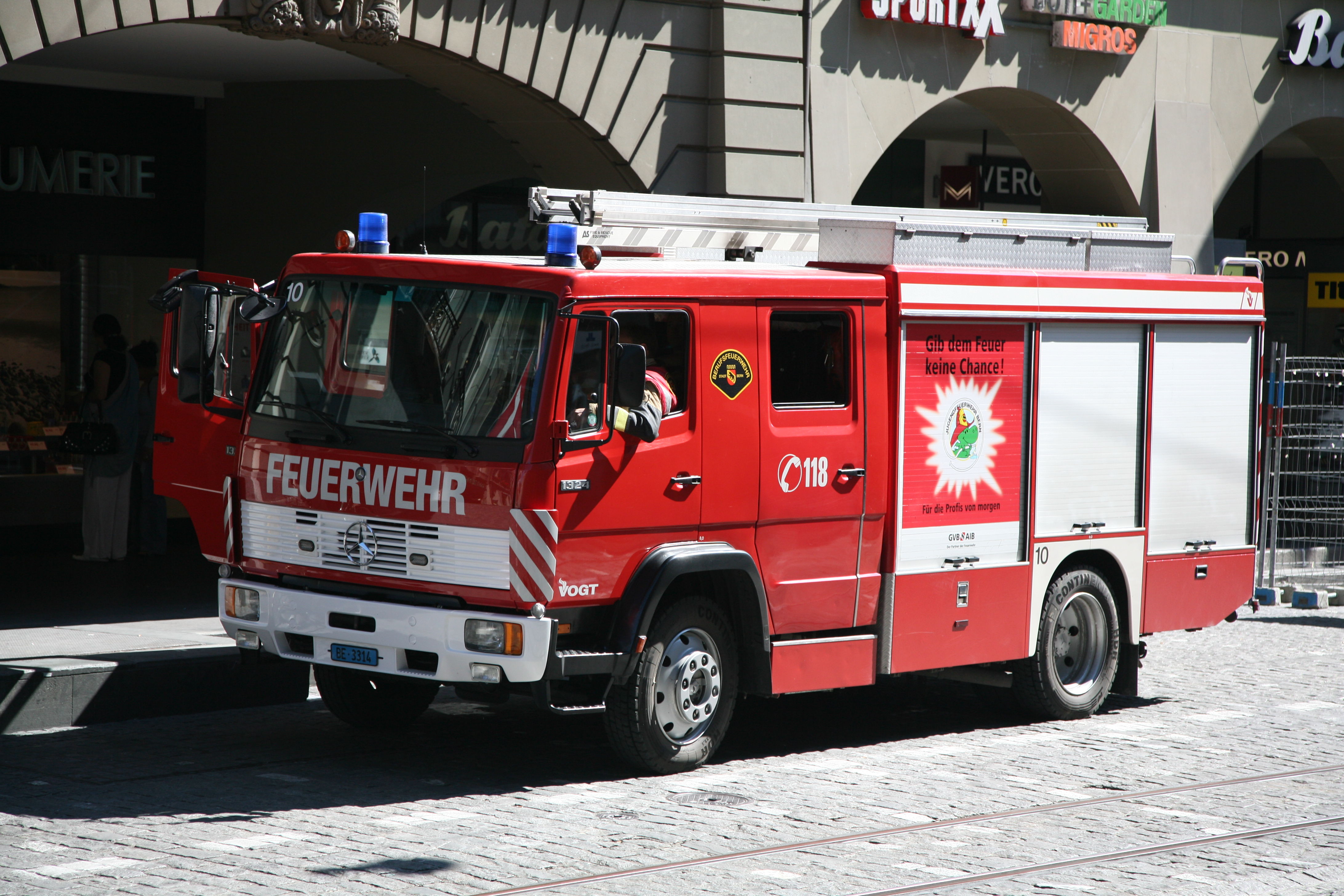 Fire engine in Berne, Switzerland